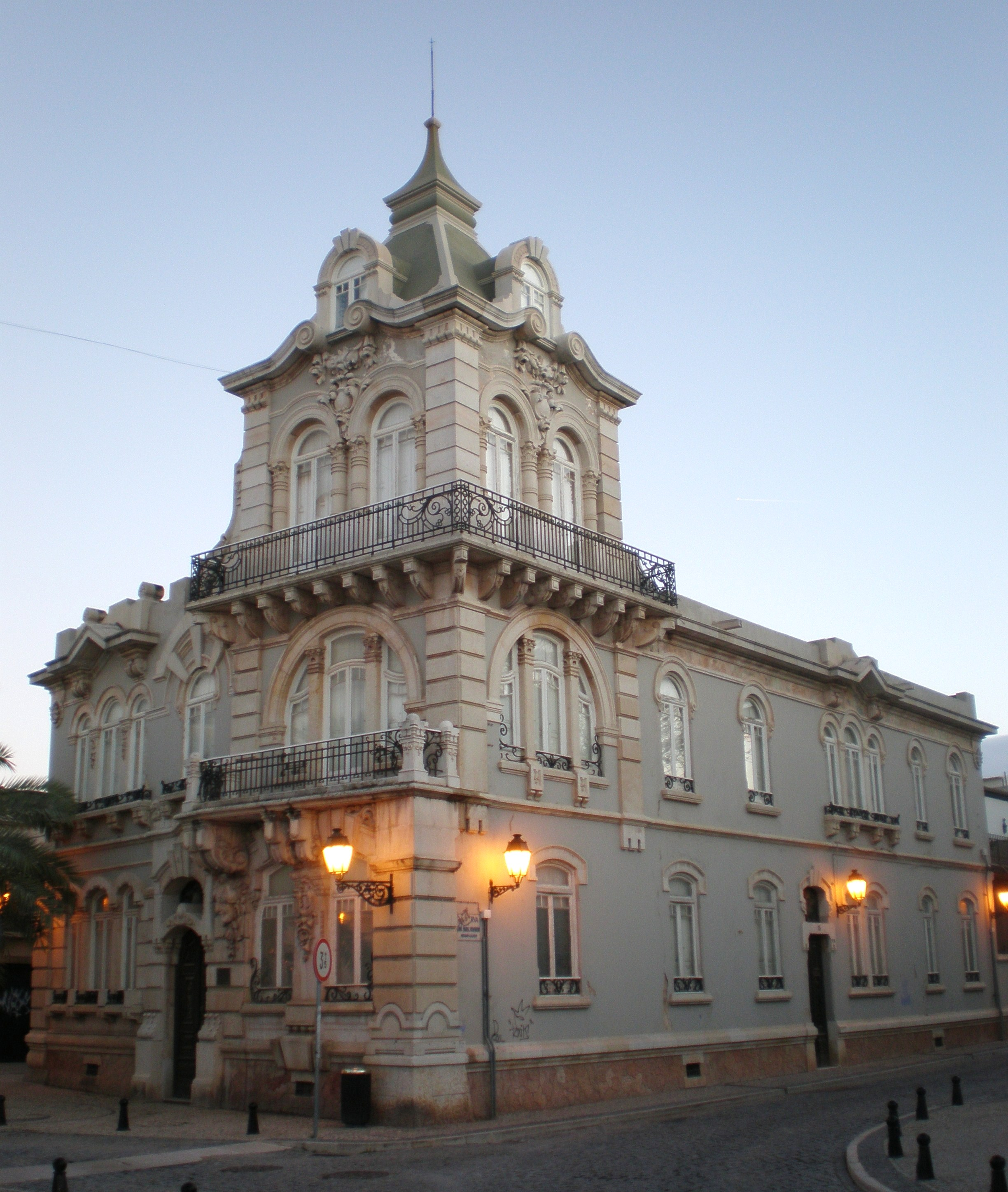 Belmarço Palace, Faro, Portugal